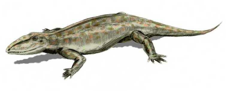 Ophiacodon retroversus, pencil drawing